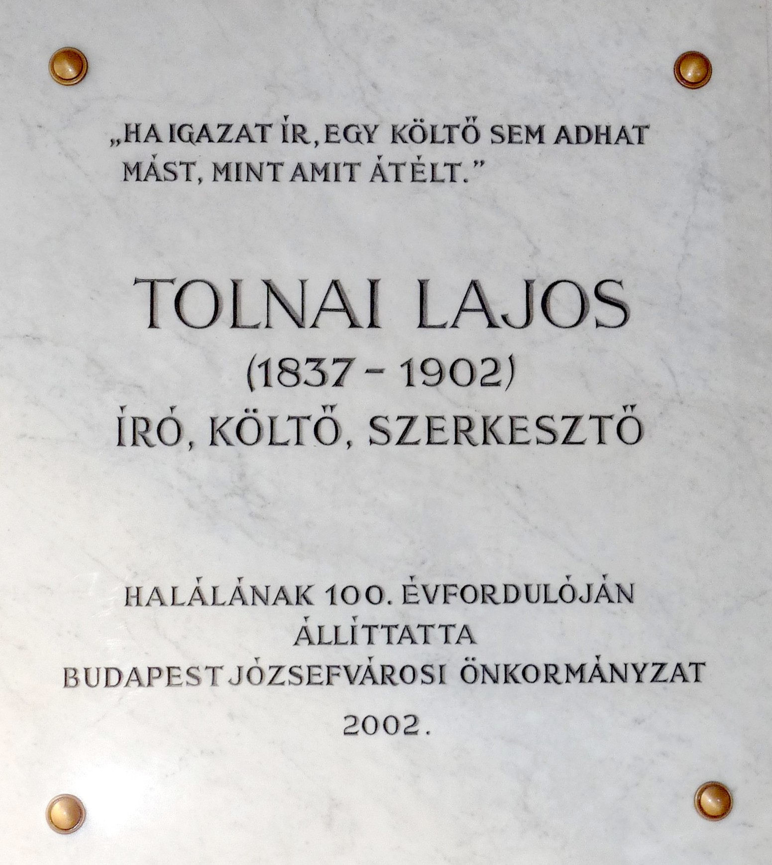 Commemorative plaque to Mr. Lajos Tolnai (1837-1902) Hungarian writer, poet and editor, affixed on the occasion of its centenary on the wall of an elementary school in the street bearing his name. Quote: “If he writes the truth, not a poet can give another what he lived.” (Budapest, District VIII, Tolnai Lajos Street Nr 11-15).